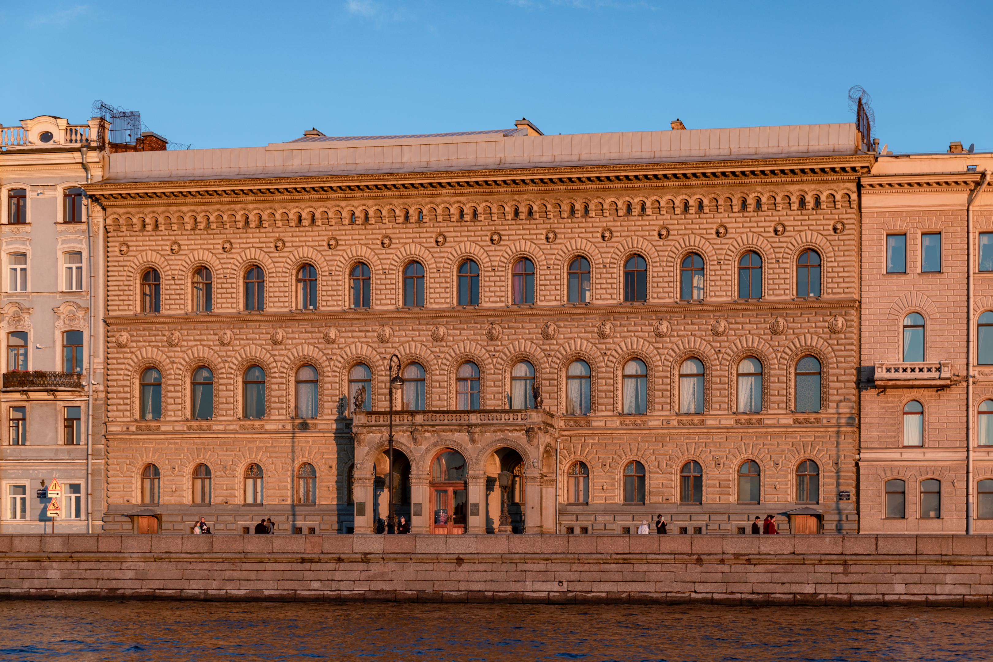 Sunset on Neva The Vladimir Palace was the last imperial palace to be constructed in Saint Petersburg, Russia. It was designed by a team of architects (Vasily Kenel, Aleksandr Rezanov, Andrei Huhn, Ieronim Kitner, Vladimir Shreter) for Alexander II's son, Grand Duke Vladimir Alexandrovich (Romanov) of Russia. Construction work lasted from 1867 to 1872. Like the Winter Palace and the Marble Palace, the Vladimir Palace fronts Palace Embankment; water frontage on the Neva was extremely prized by the Russian aristocracy. The façade, richly ornamented with stucco rustication, was patterned after Leon Battista Alberti's palazzi in Florence. (Wikipedia)